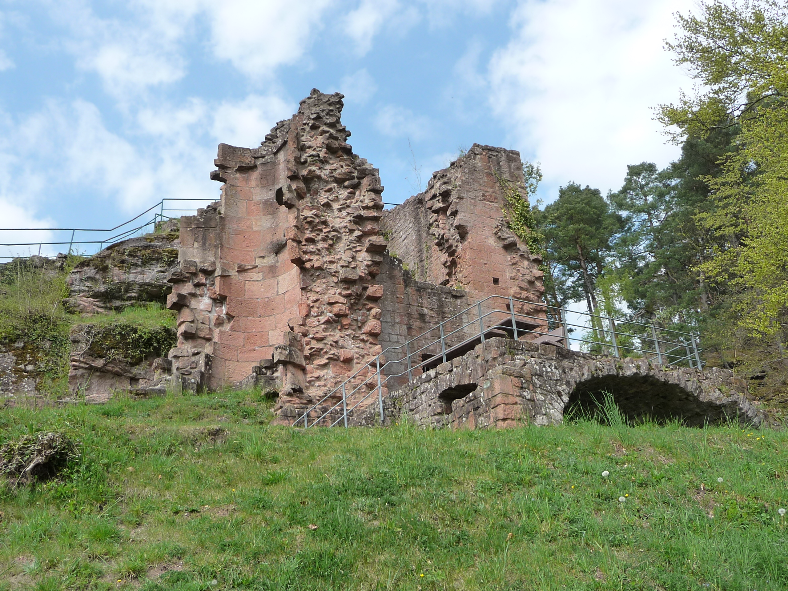 Burg Neidenfels